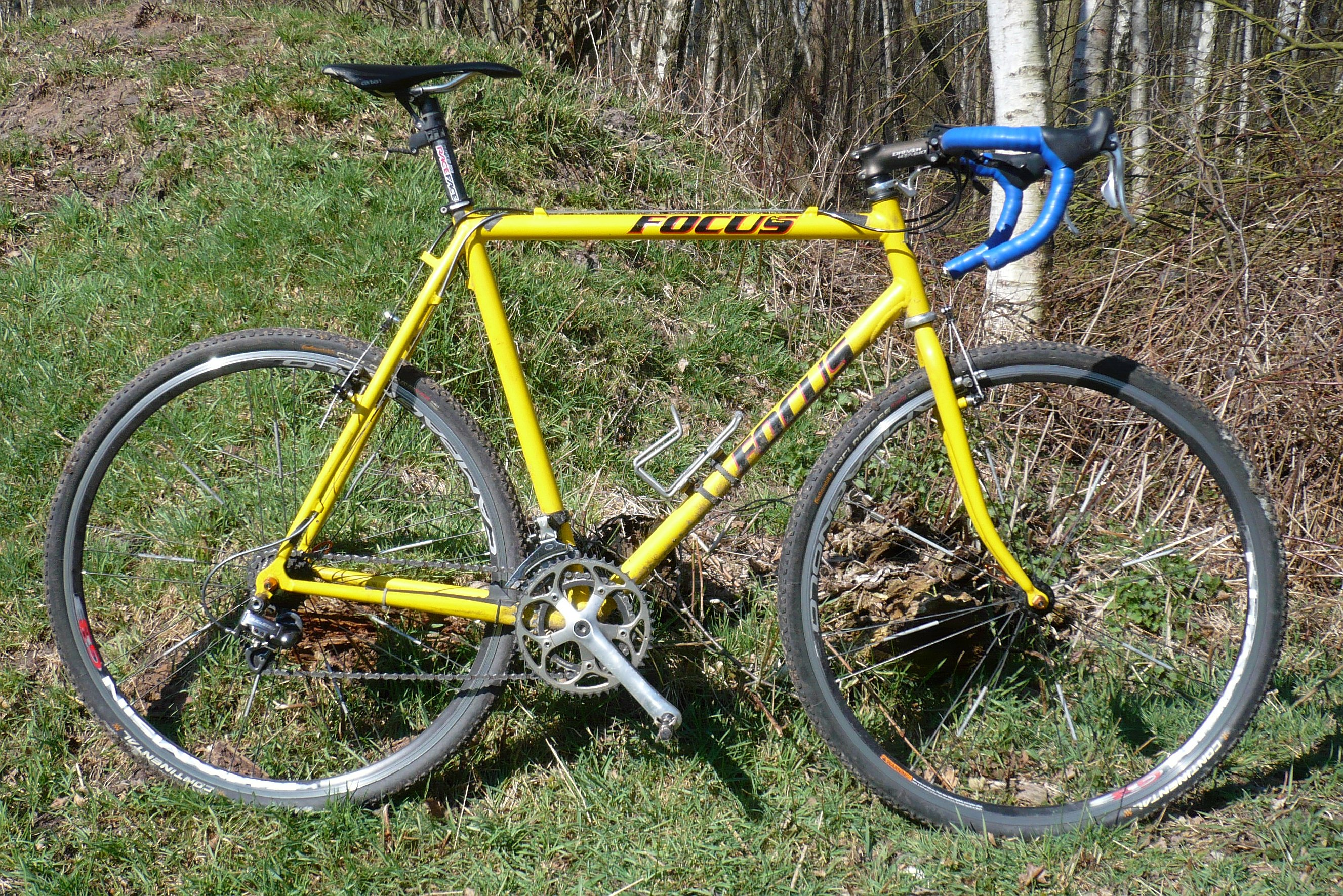 Focus Cyclocross built arround 2002